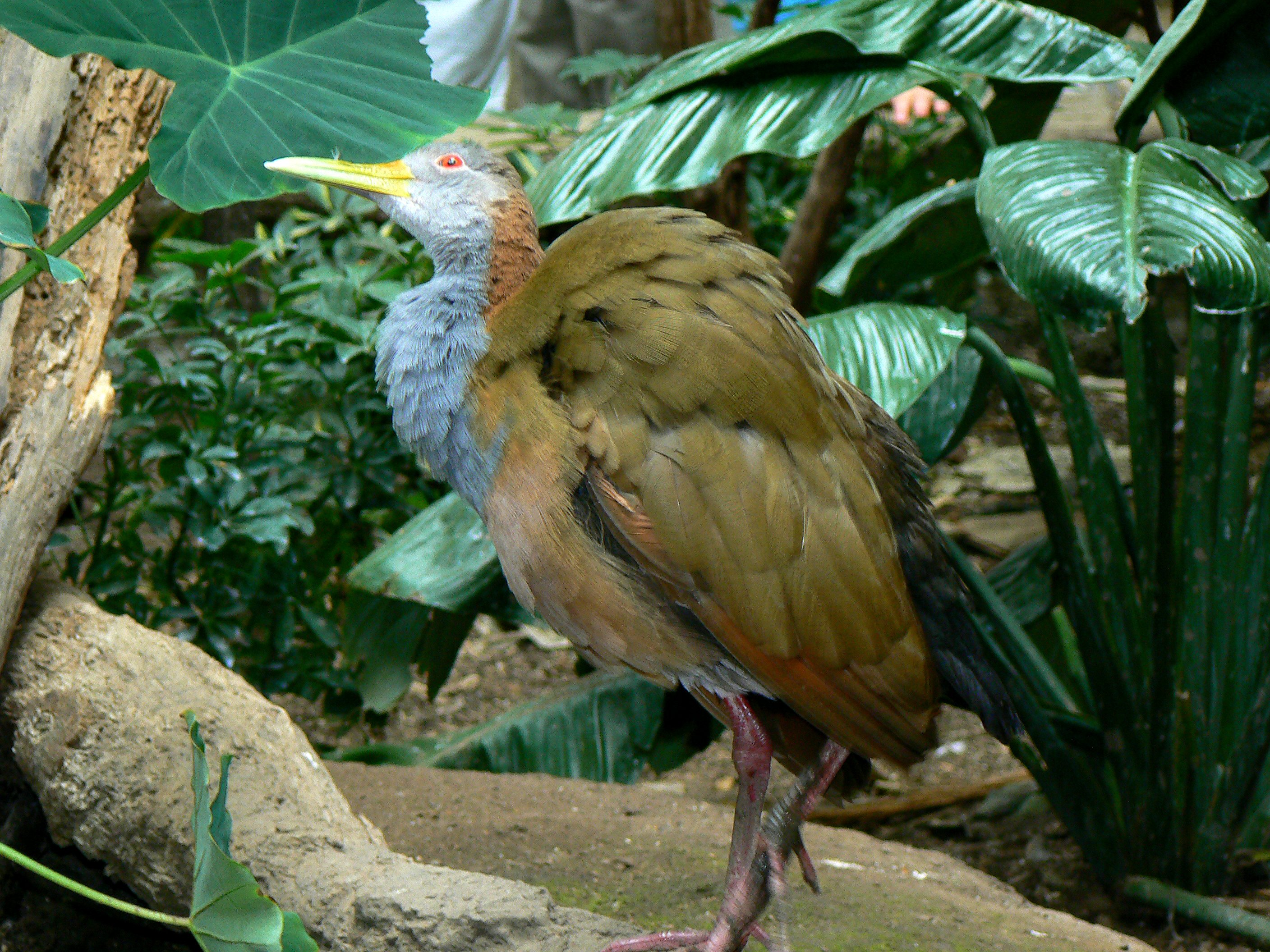 Giant Wood Rail (Aramides ypecaha), family Rallidae.